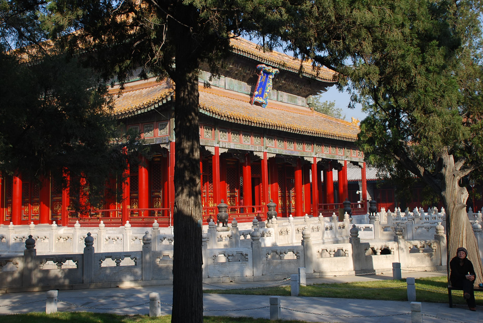 北京国子监辟雍殿. The Biyong Palace in the Guozijian in Beijing